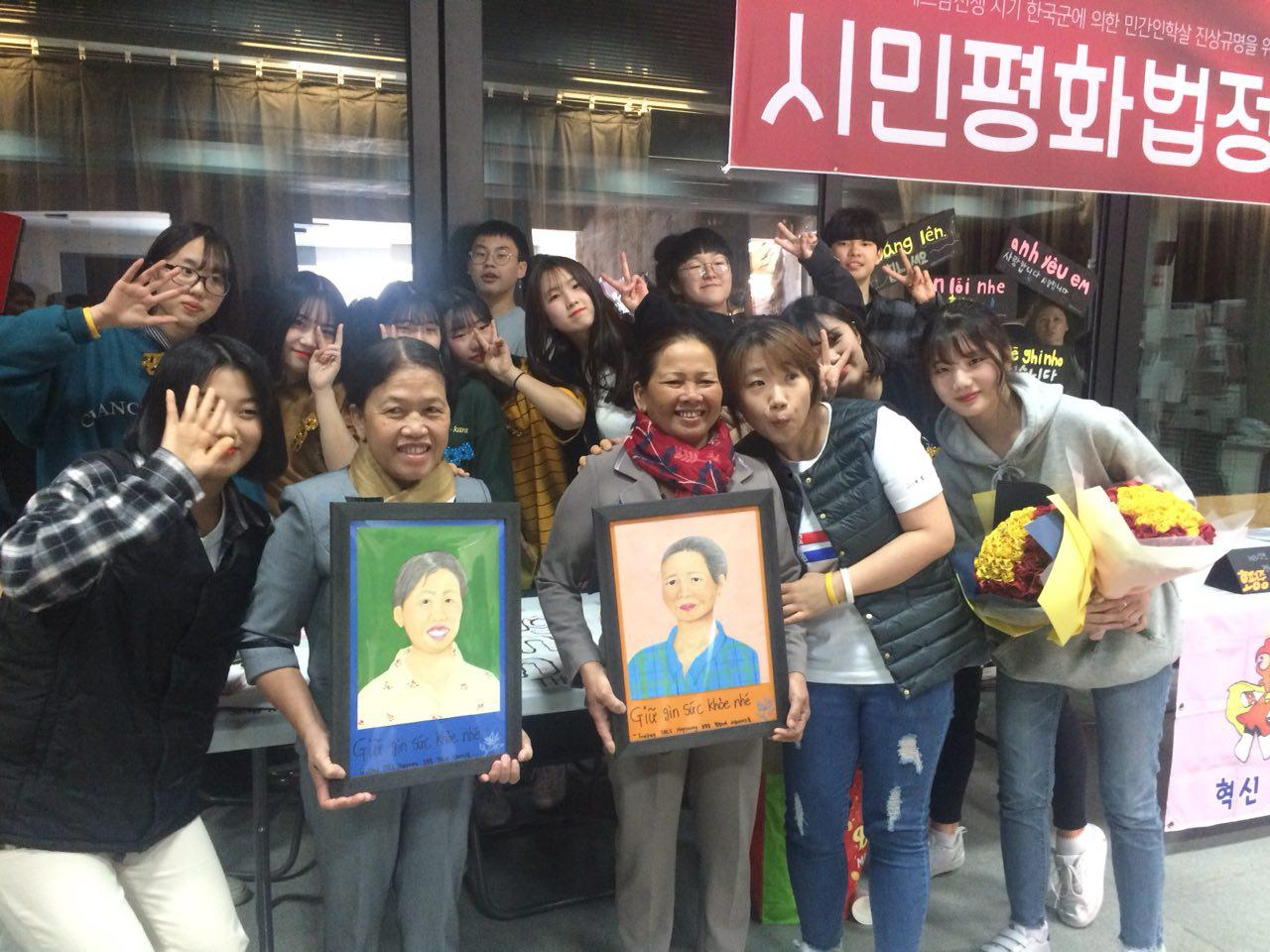 Two Nguyen Ti Than, surviver of massacre on Vietnam War. They have same name but different people to live Quang Nam. They lost their family at 1968 by Korean troops during Vietnam war